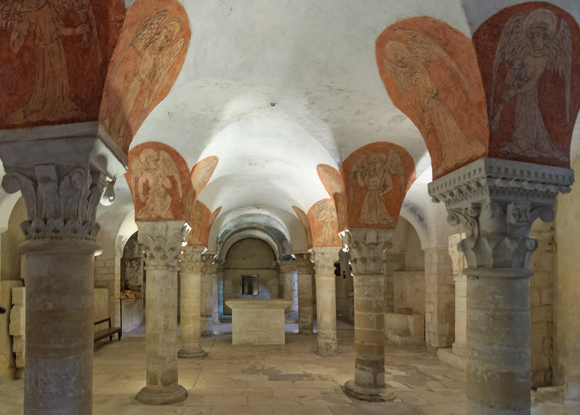 The Romanesque crypt of Bayeux Cathedral, Basse-Normandie, France. Above the capitals are 15th-century frescos depicting musician angels.